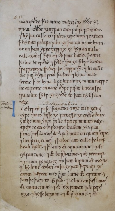 Will of Alfred the Great (New Minster Liber Vitae) - BL Stowe MS 944